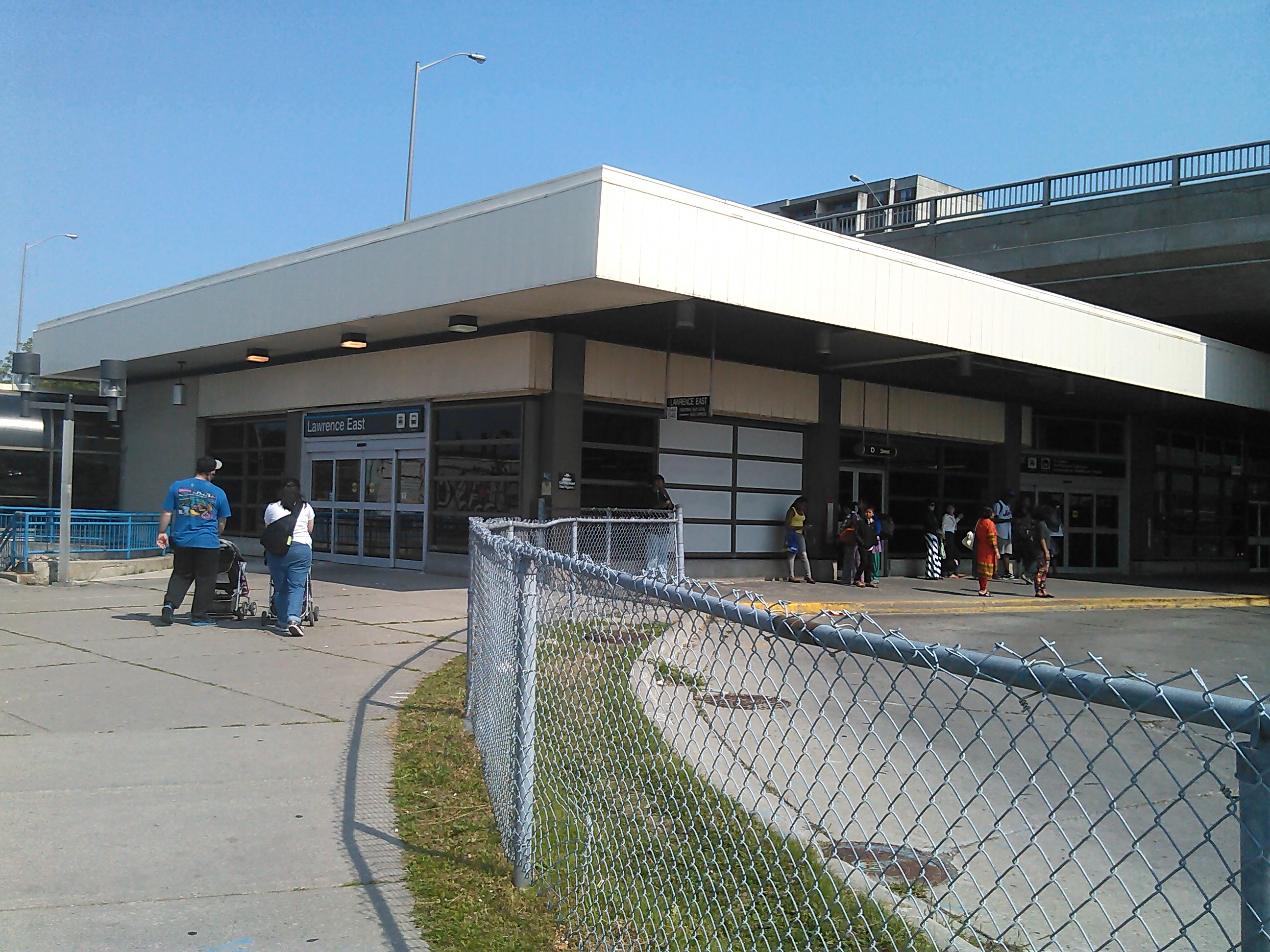 The entrance of Lawrence East RT station of the TTC in Scarborough, Canada.